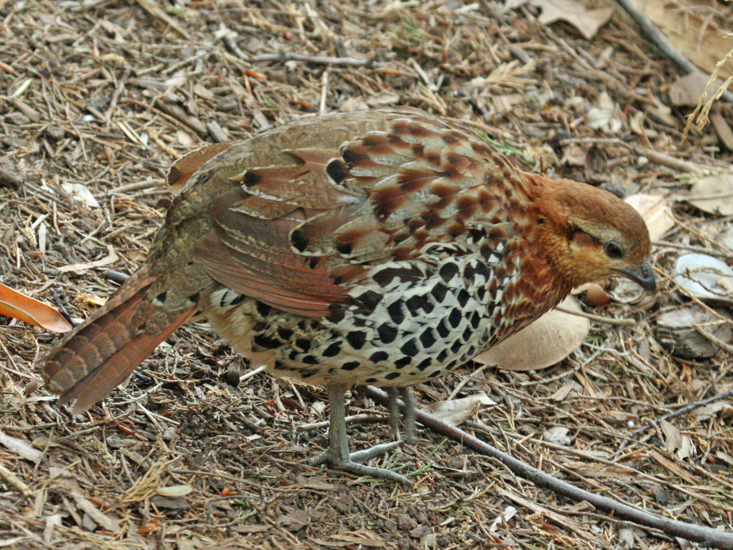 Mountain Bamboo-partridge ( Bambusicola fytchii) at the Washington National Zoo